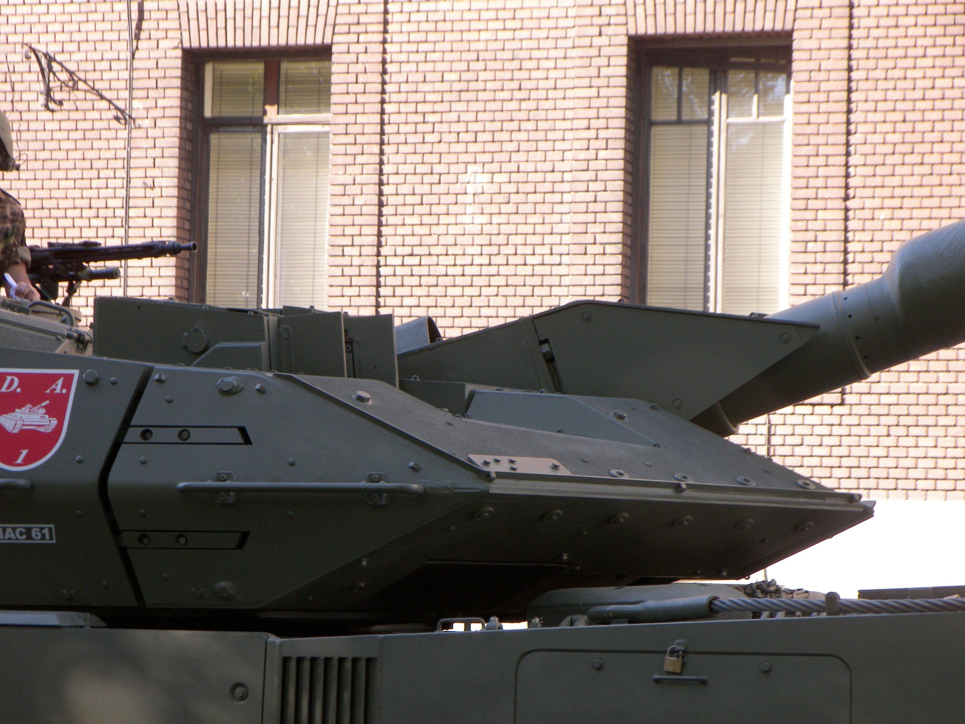 A zoom on the Leopard 2Es turret mantel.